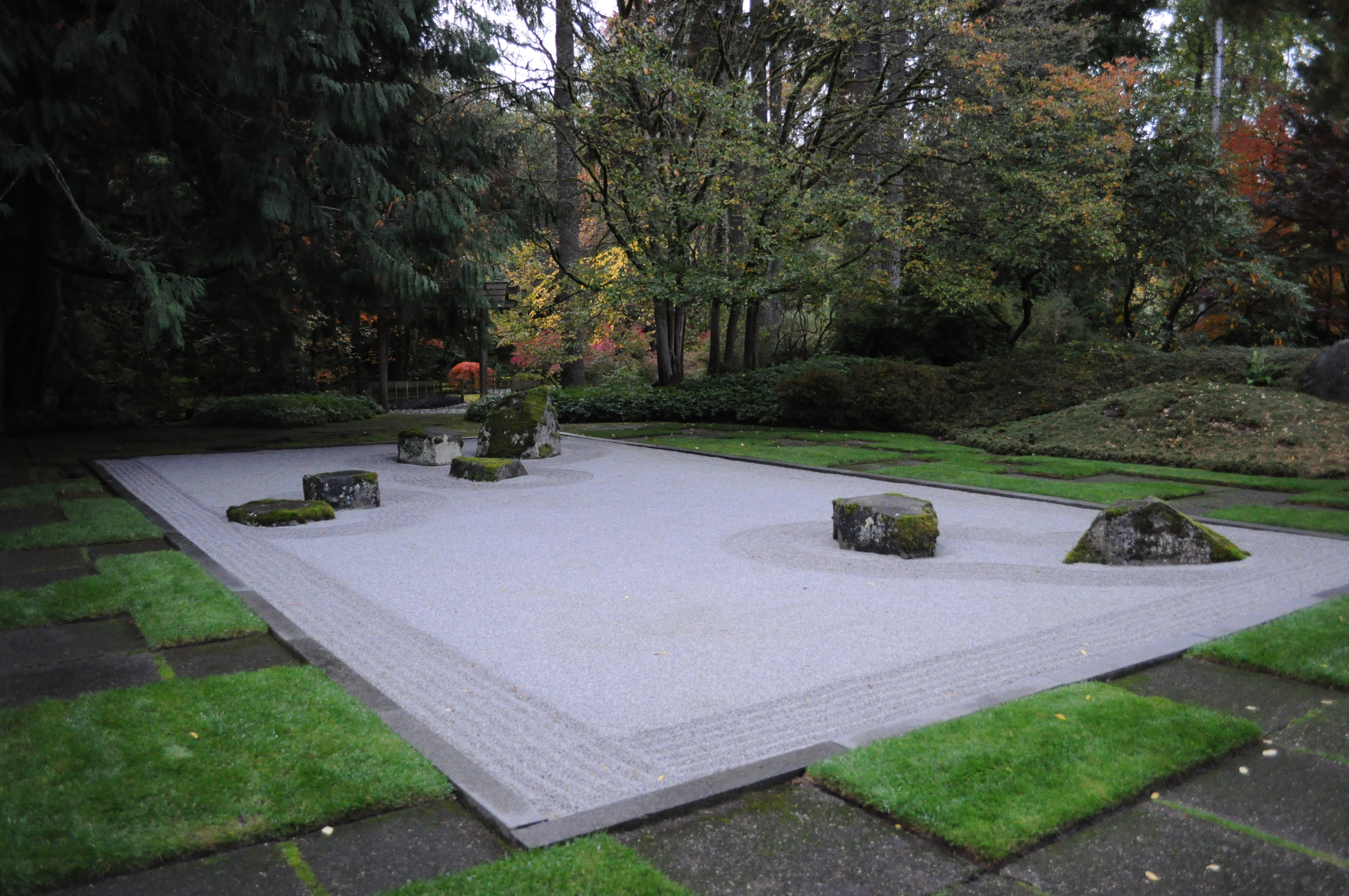 Japanese stone garden, Bloedel Reserve, Bainbridge Island, Washington. This used to be the site of a swimming pool, where poet Theodore Roethke drowned in 1963 (see Brendan Kiley, Drunk Diver, The Stranger (Seattle), February 27, 2007).